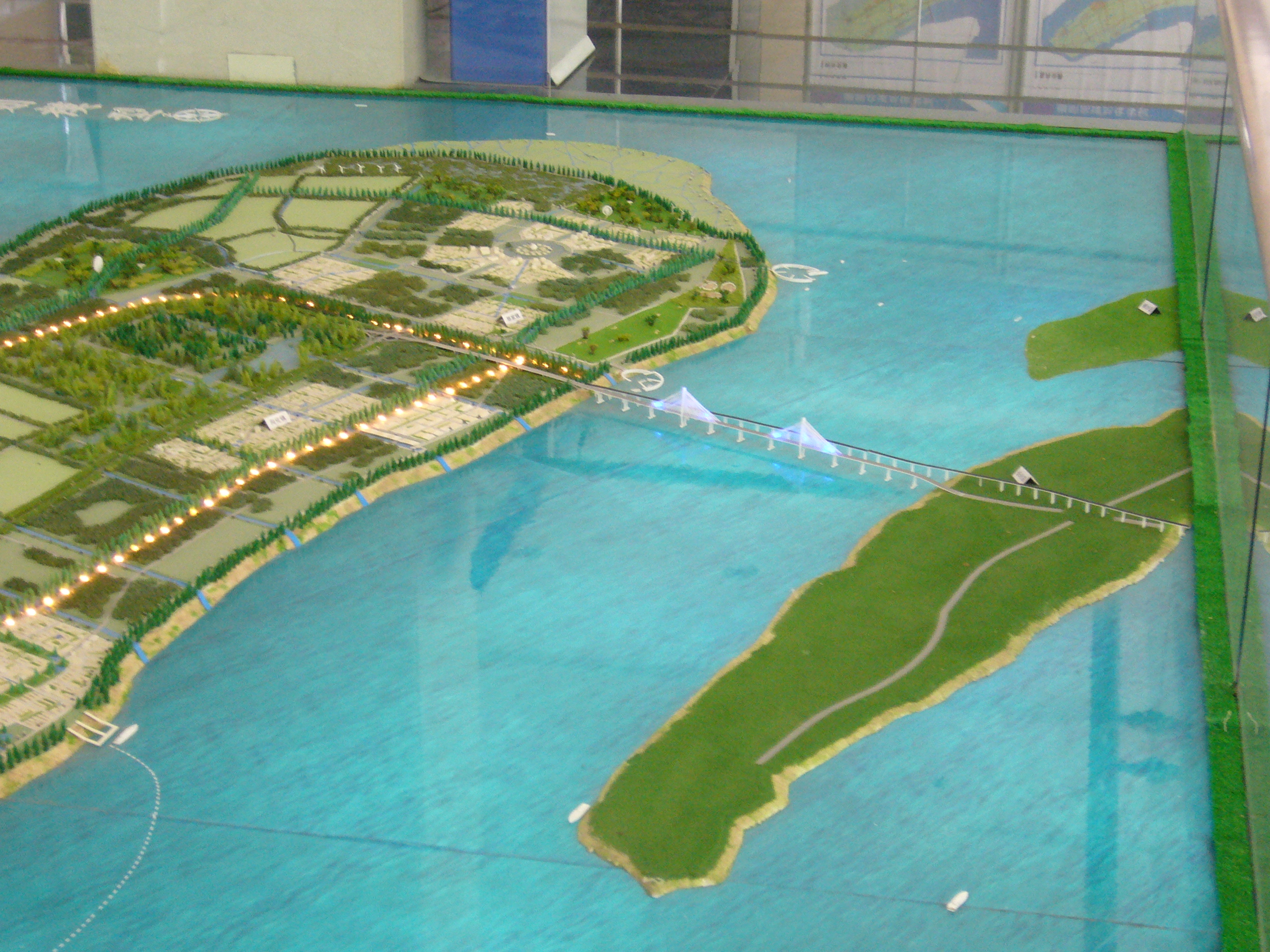 Chongming Island, Shanghai, China Proposed bridge to adjacent island. Construction on this world's longest suspension bridge begins soon and is expected to be completed before the 2010 Shanghai World Expo. I heard 2008-9. A tunnel connects the island to Shanghai city. UPDATE: The bridge was completed in 2009, but does not closely resemble this model. Smyth (talk) 11:51, 28 January 2015 (UTC)